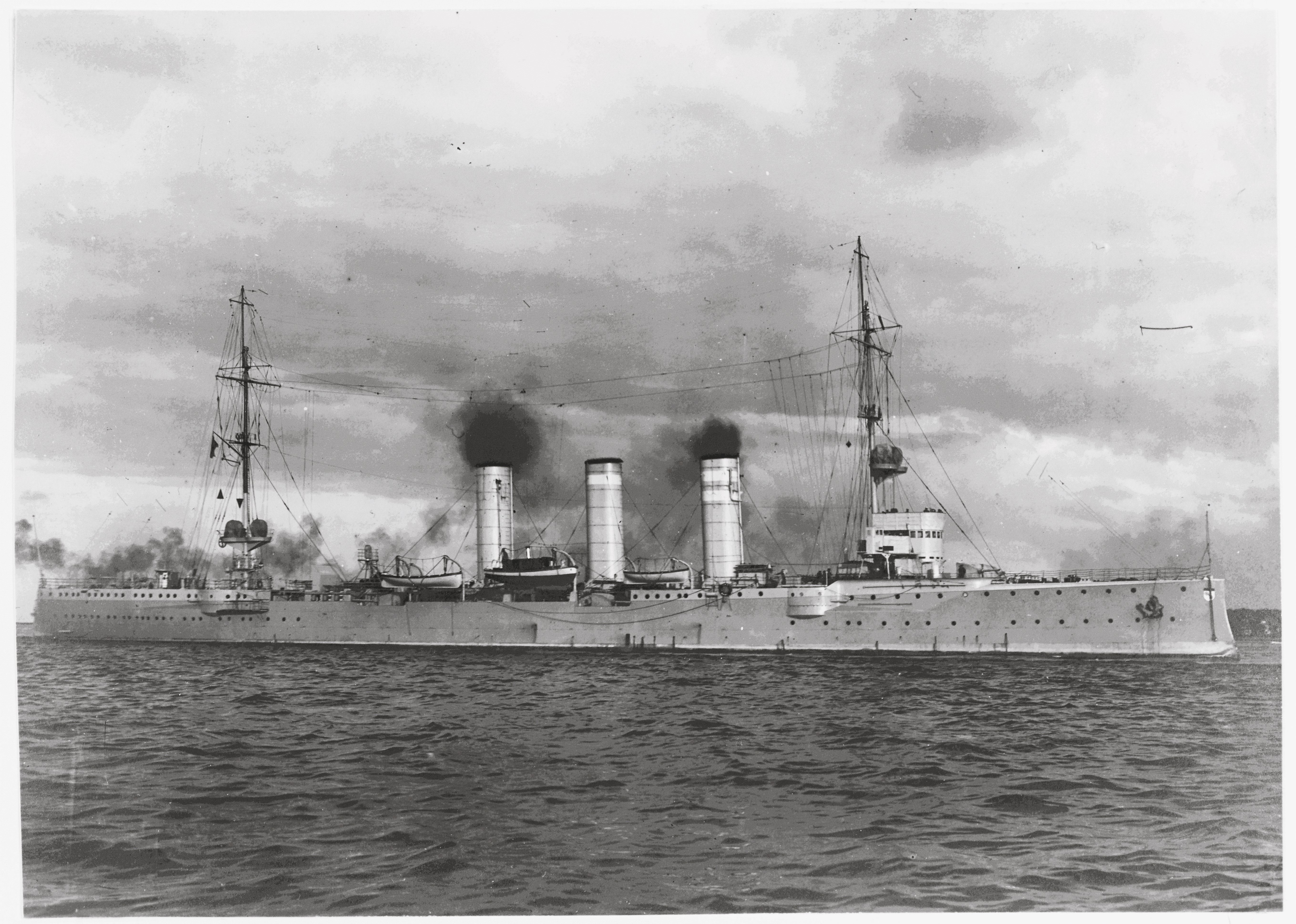 MAINZ (German light cruiser, 1909-1914) Caption: Photographed by Arthur Renard of Kiel, in a photograph received by U.S. Naval I+C43ntelligence on 19 October 1910. The ship entered fleet service on 1 October 1909.